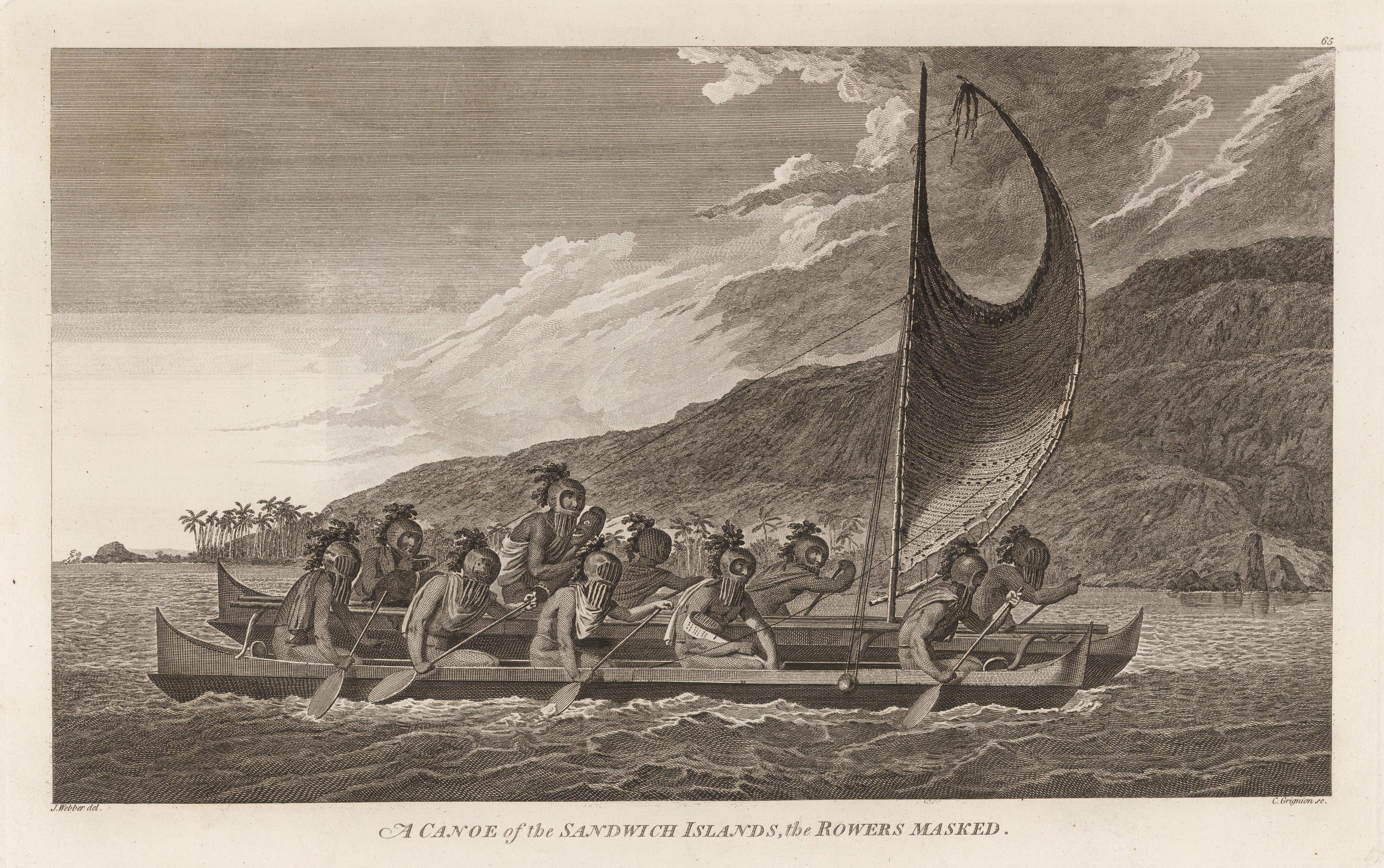 Priests traveling across Kealakekua bay for first contact rituals. Each helmet is a gourd, with foliage and tapa strip decoration. A feather surrounded akua is in the arms of the priest at the center of the engraving. It is not known what the purpose of the ritual surrounding first contact with Westerners was.